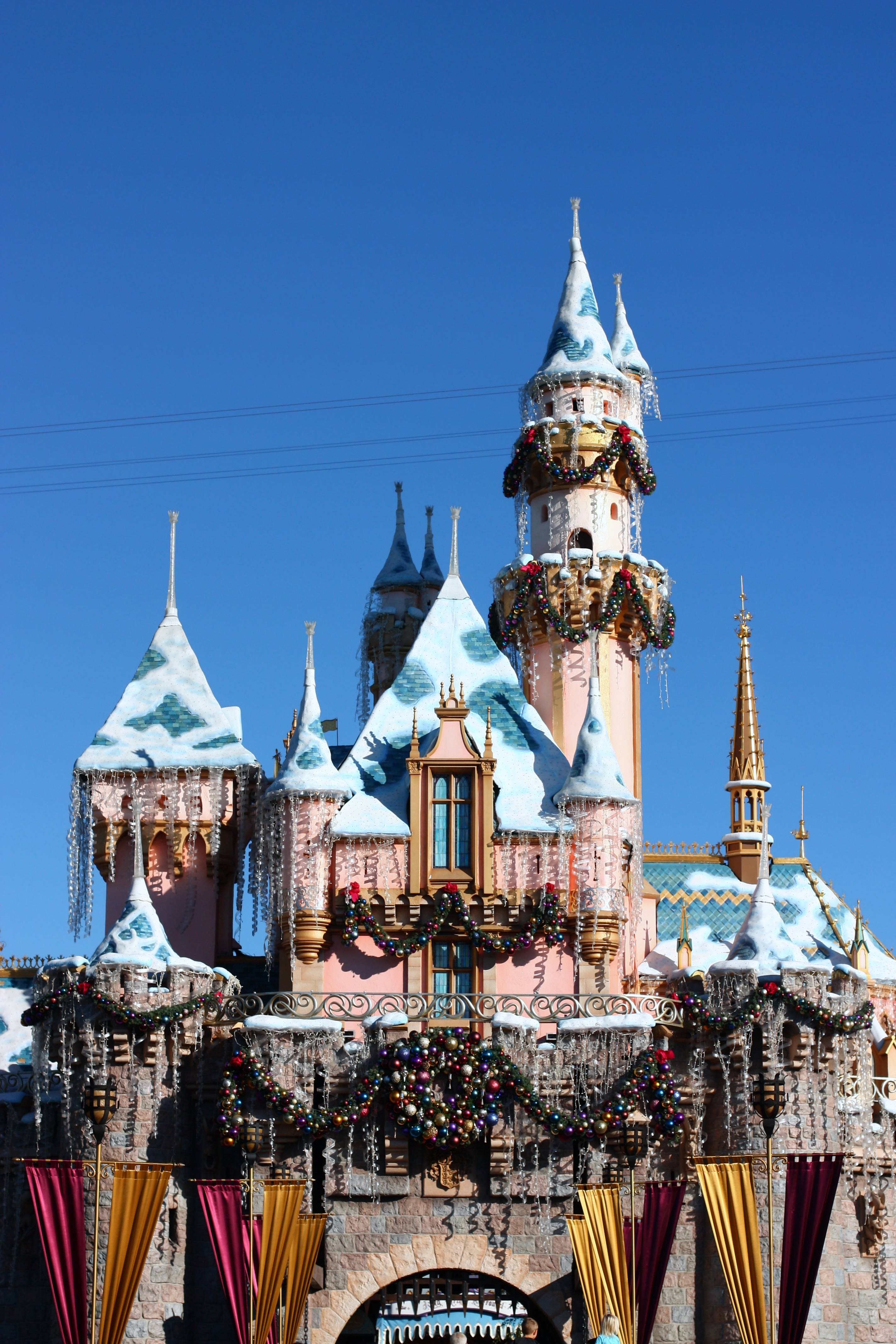 Sleeping Beauty Castle at Disneyland as decorated for Christmas.